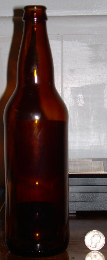 Image of a 22oz bomber beer bottle.